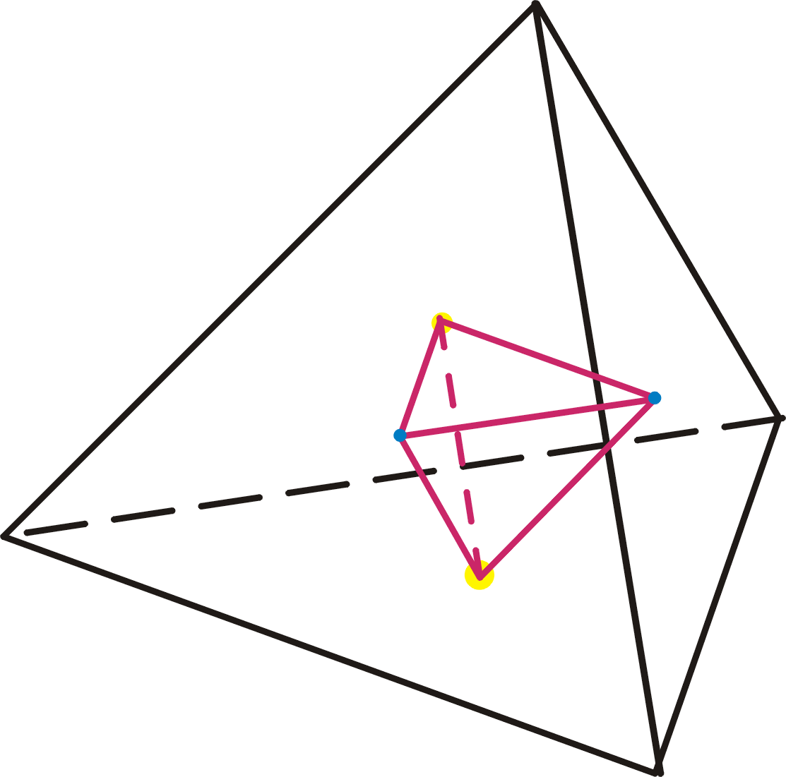 Self-duality of tetrahedrons.